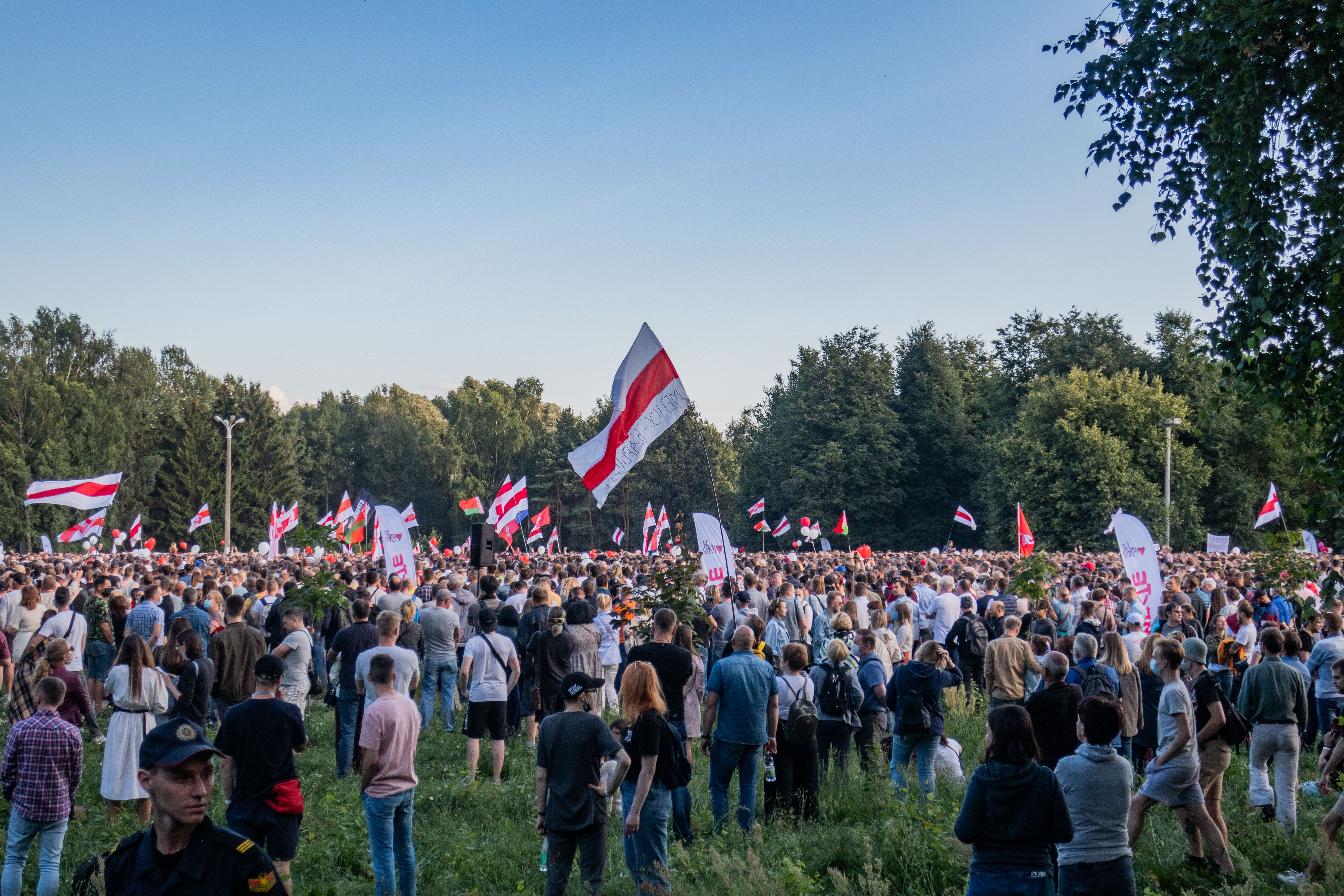 Rally in support of Sviatlana Tsikhanoŭskaya and the joint campaign headquarters. 30 July 2020, Minsk, Belarus